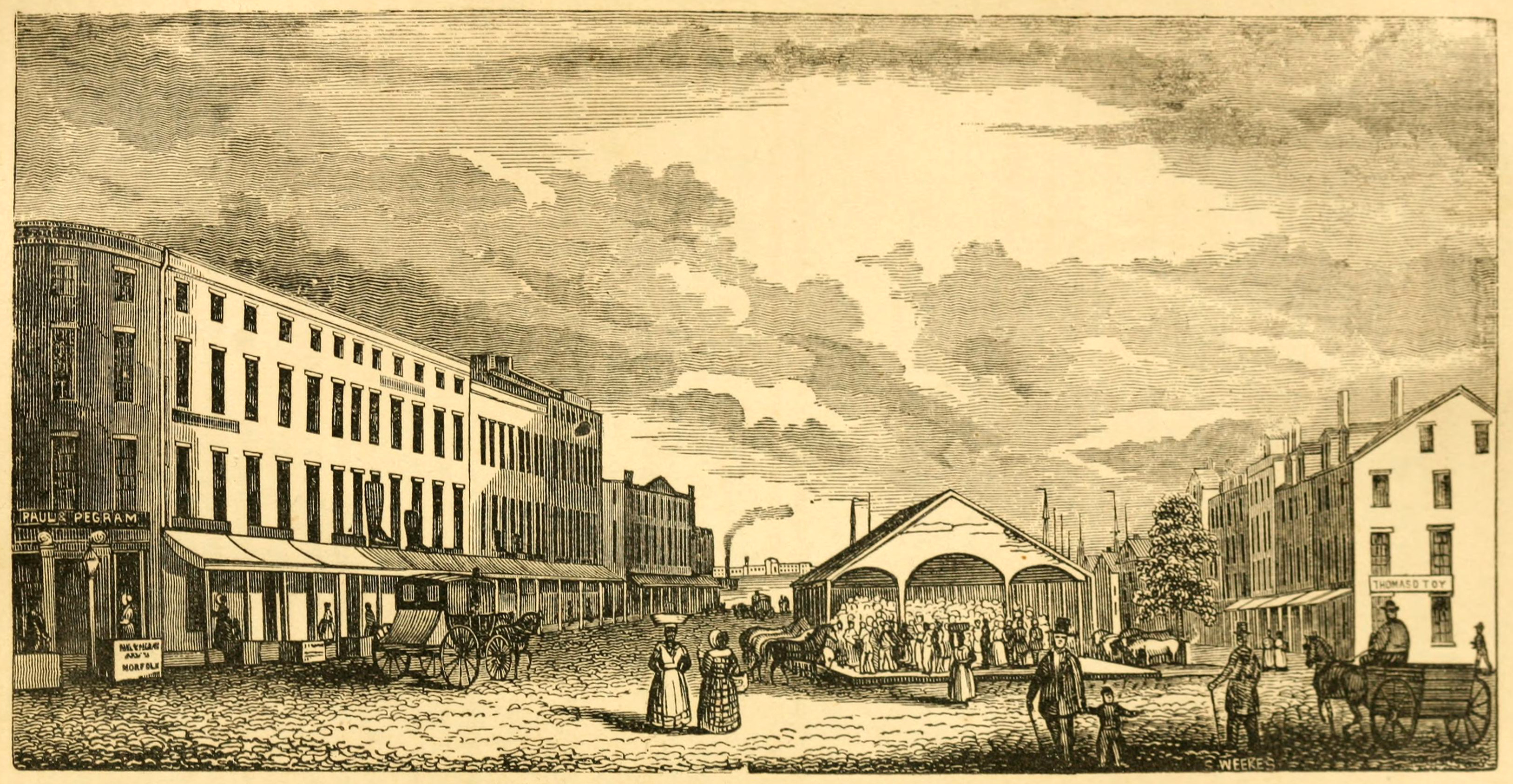 "Market Square, Norfolk", an engraving from Henry Howe's Historical Collections of Virginia (1845). The image was captioned: "Market Square, Norfolk: In the centre of the view is shown the market, and in the distance, on the opposite bank of Elizabeth River—the common harbor of Norfolk and Portsmouth—a part of the town of Potsmouth."